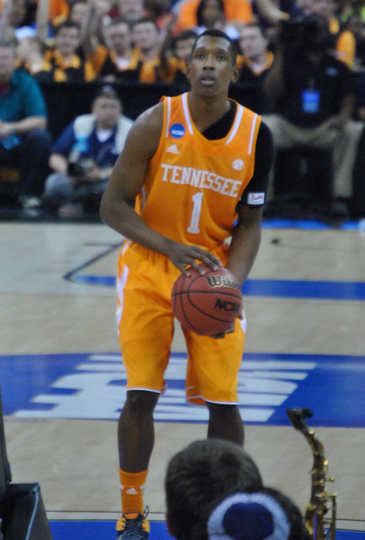 Josh Richardson at the free throw line for the Vols